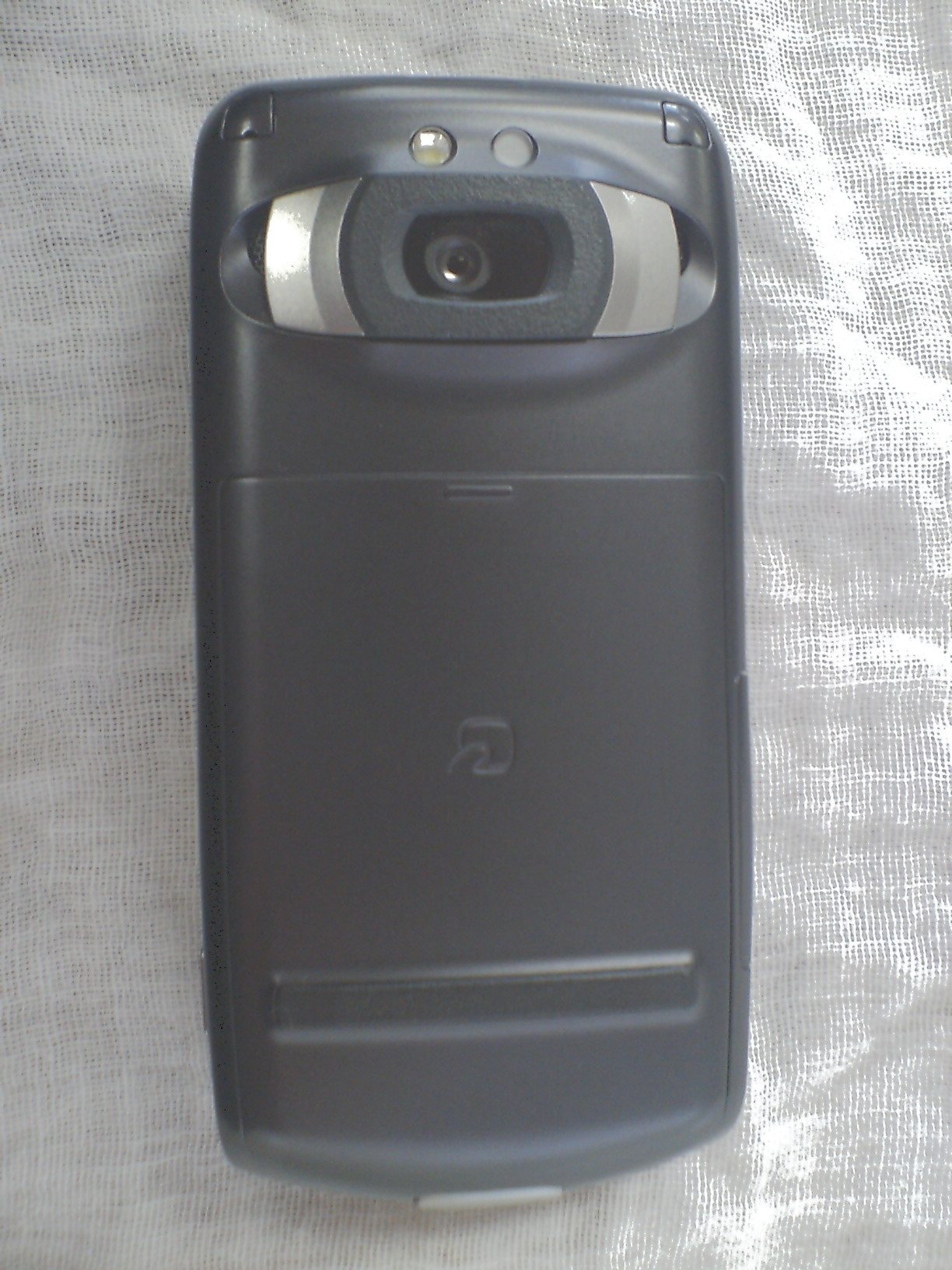 au WIN W41CA by Casio Hitachi Mobile Communications, Fjord Black, back. Au WIN W41CA、カシオ日立製、フィヨルドブラック、背面。